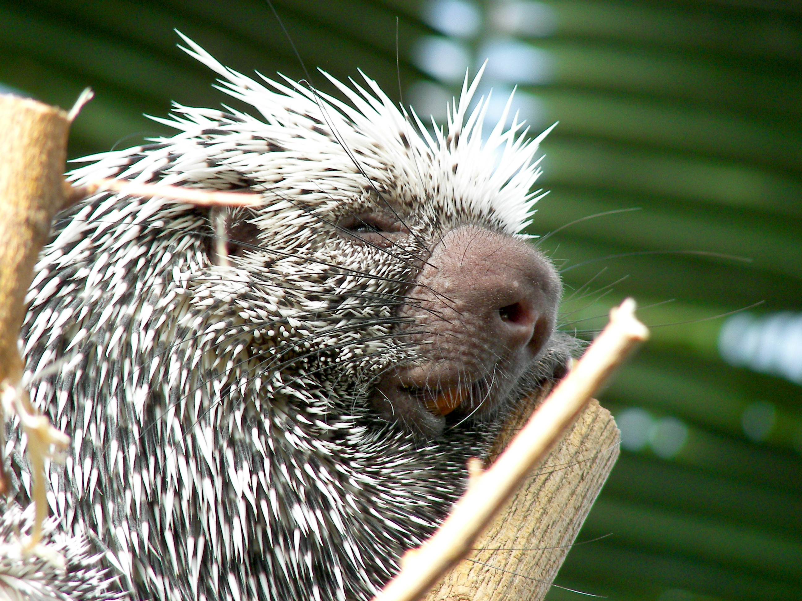 Sleepy, tree climbing porcupine at the Amazonia exhibit at the Mesker Zoo, Evansville.